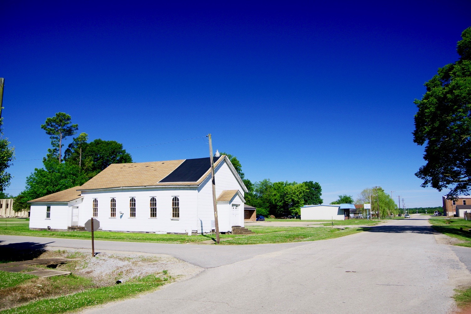 Maple Street in Knobel, Arkansas, United States, with the Knobel Community Center on the left.